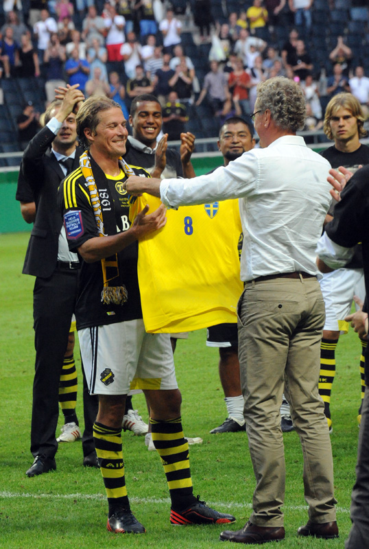 AIK fans used to sing "Tjerna till landslaget", that is "Tjerna to the national team". After his last match, AIK's captain Daniel Tjernström receives a jersey of the Sweden national team from Erik Hamrén, head coach of Sweden.